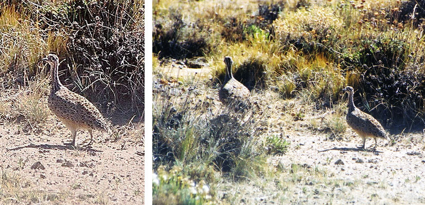 Known as Perdiz Austral, Rio Negro Province, southern Argentina. In context at